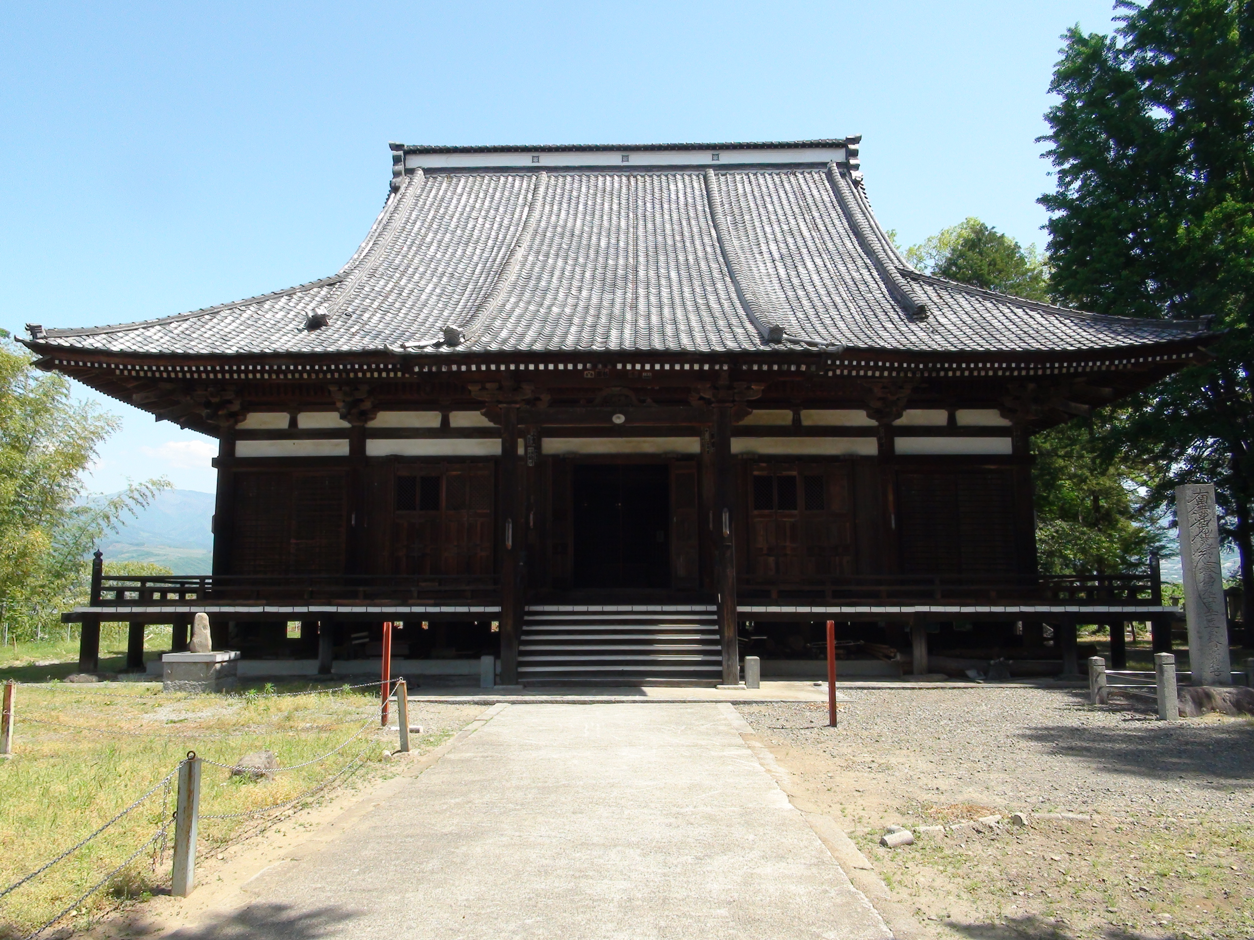 Main hall of Risshou-ji Temple.Koshu city